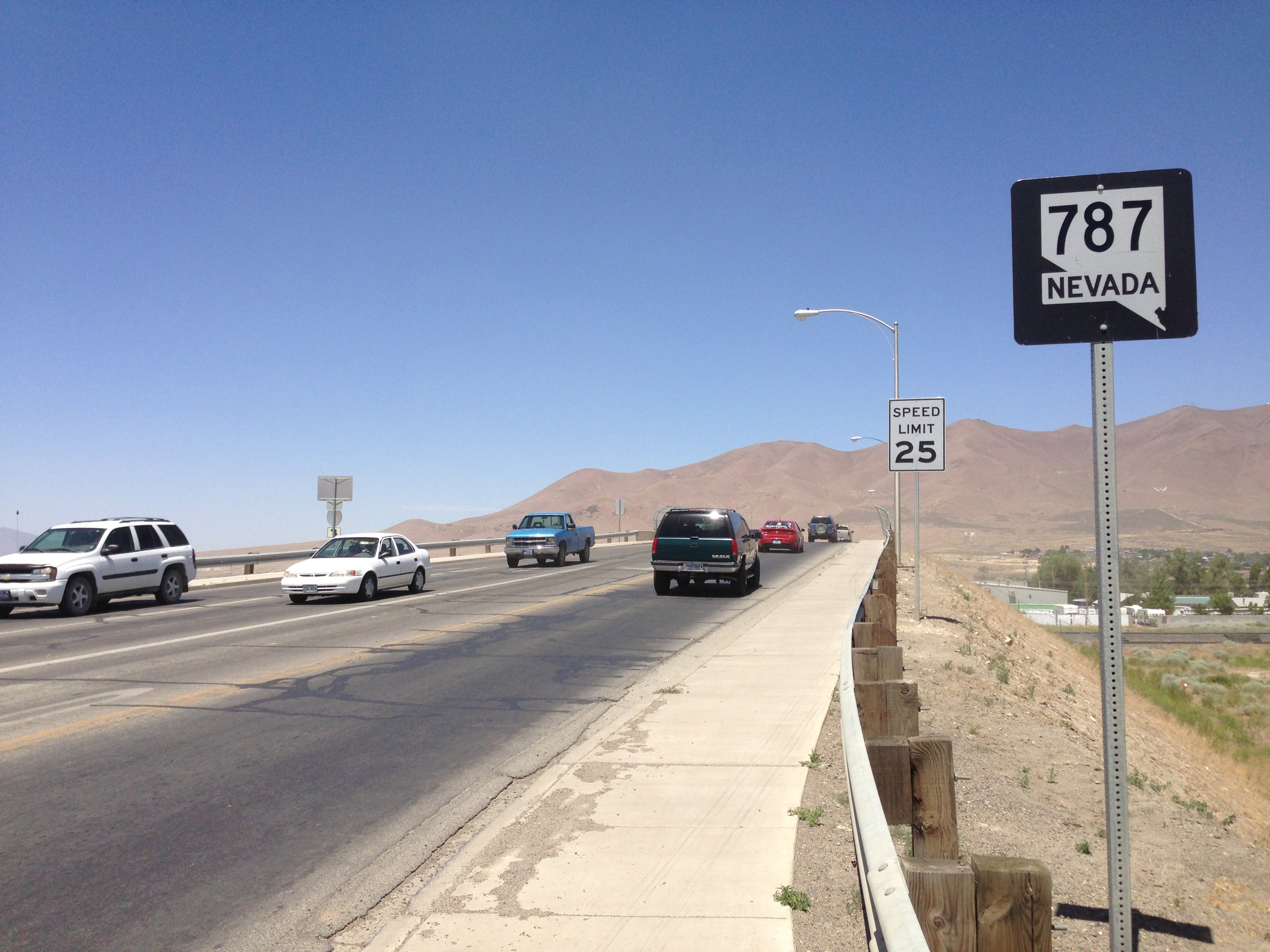 First reassurance sign along westbound Nevada State Route 787 (Hanson Street) in Winnemucca, Nevada